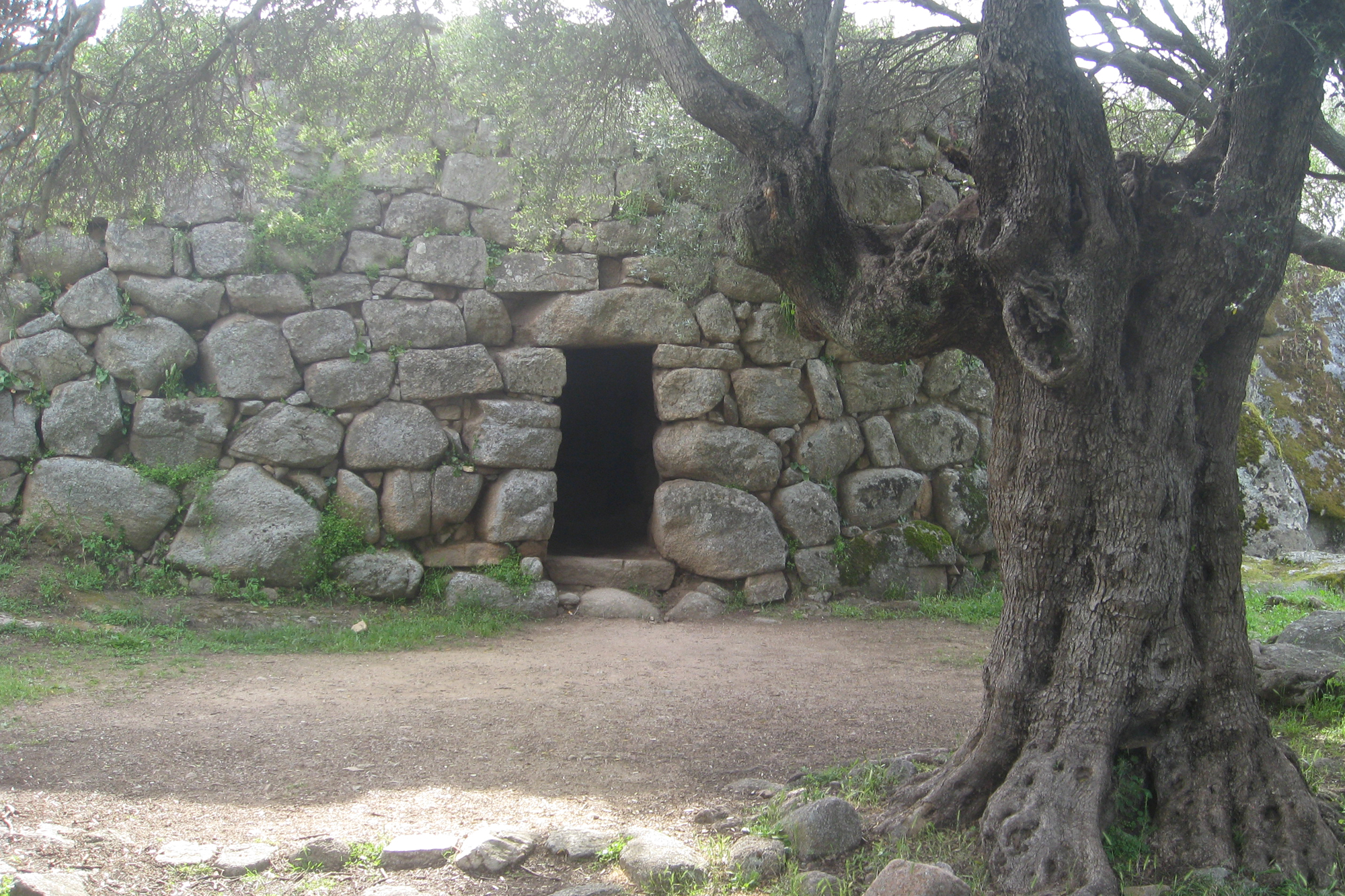 Nuraghe Albucciu near Arzachena, Province Olbia-Tempio, Sardinia, Italy